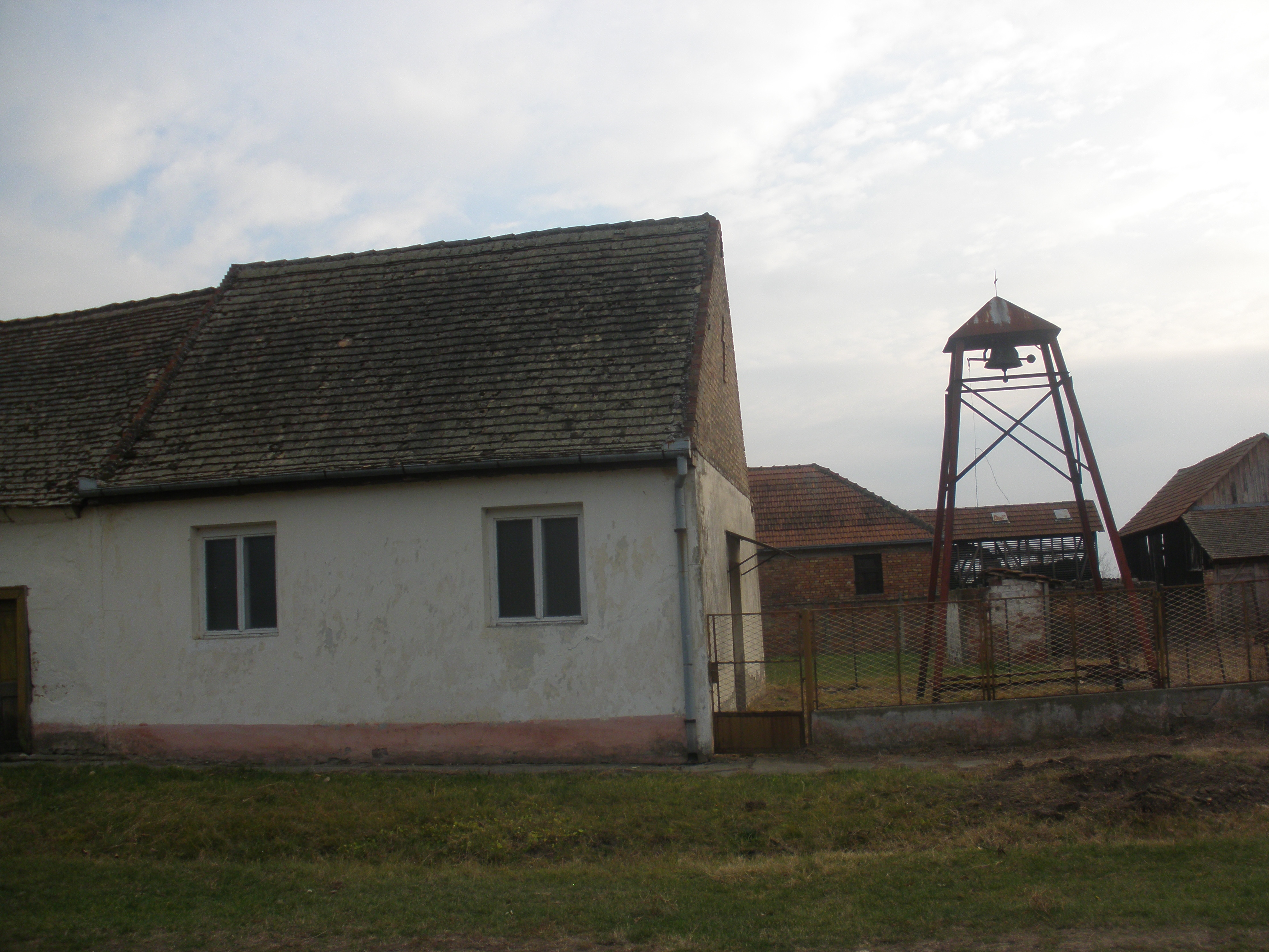 Catholic chapel of Saint Catharina of Alexandria in Markovićevo